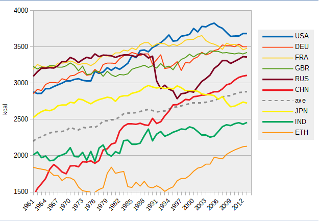 Food Supply (kcal/capita/day) - These are supplied values, intake values are about 60-70% of supplied energy. The food waste (FAO's estimates) is about 1/3 of total food production weight. (FAO-SIK Global food losses and food waste) Values of Russia prior to 1991 are of USSR and Ethiopia to 1992 are of Ethiopia PDR. Country codes; ISO_3166-1_alpha-3, "ave"; World average FAO set the satisfactory level of food supply as 2700 kcal/capita/day. (FAO - How the world is fed) Great Chinese Famine (1958-61), Famines in Ethiopia (1970s and mid 80s through mid 90s), Data source: Food and Agriculture Organization of the United Nations (FAO) FAOSTAT Food Supply/Crops primary equivalent Additional data of Yr 2010 FAO: Food Security Africa, sub-Sahara - 2170 kcal/capita/day N.E. and N. Africa - 3120 kcal/capita/day South Asia - 2450 kcal/capita/day East Asia - 3040 kcal/capita/day Latin America / Caribbean - 2950 kcal/capita/day Developed countries - 3470 kcal/capita/day